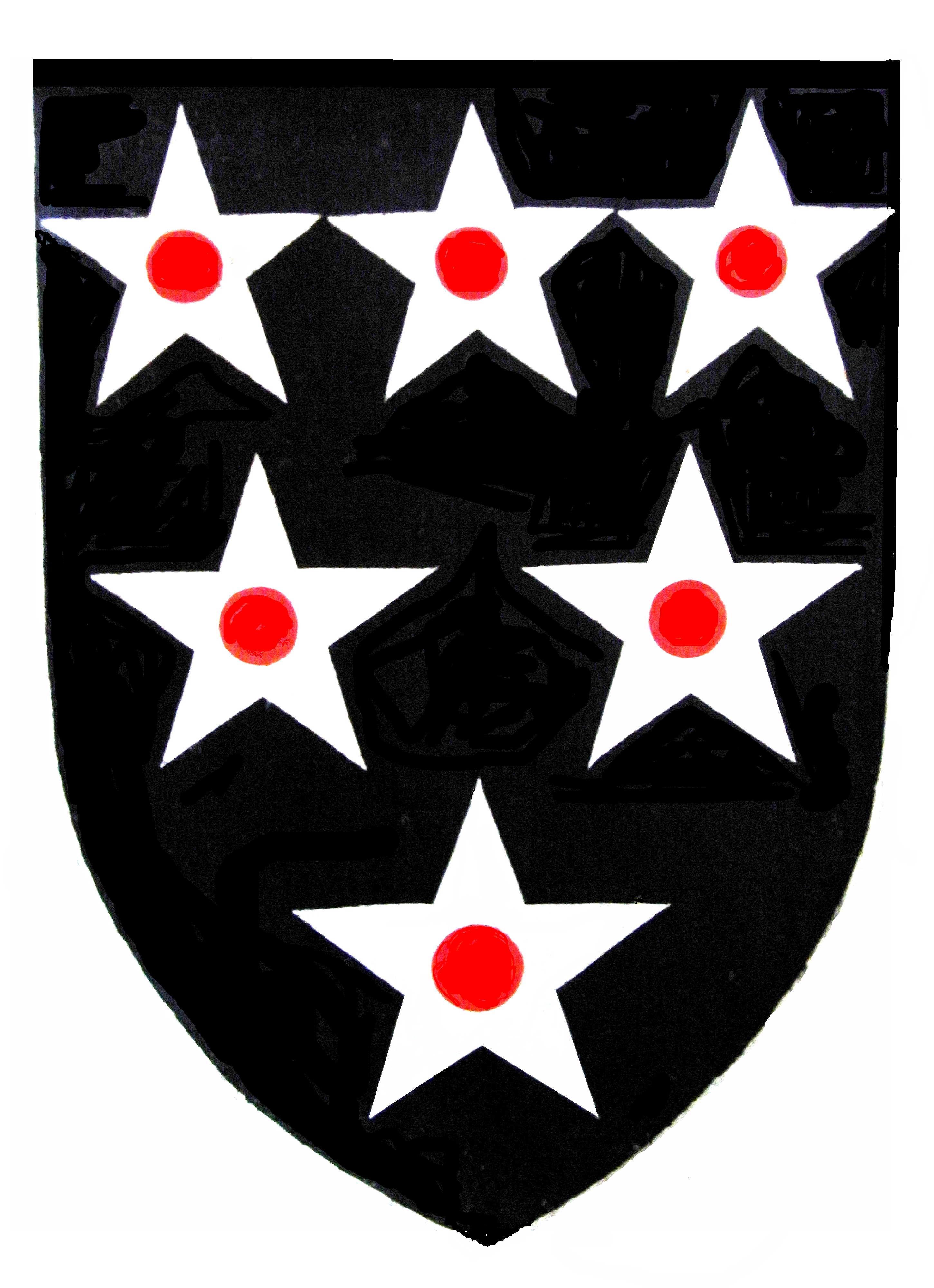 Arms of Baron Bonville (1449): Sable, six mullets argent pierced gules (Source: Burke's General Armory 1884, p.99)